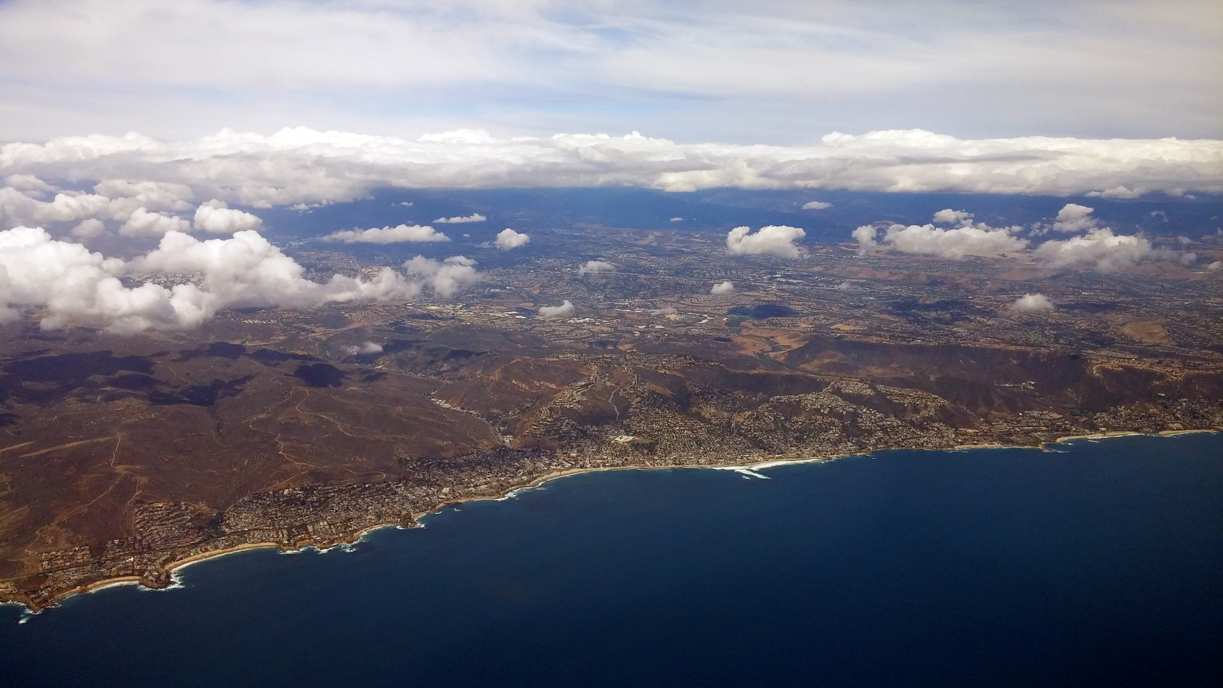 Laguna Beach Califonria by D Ramey Logan